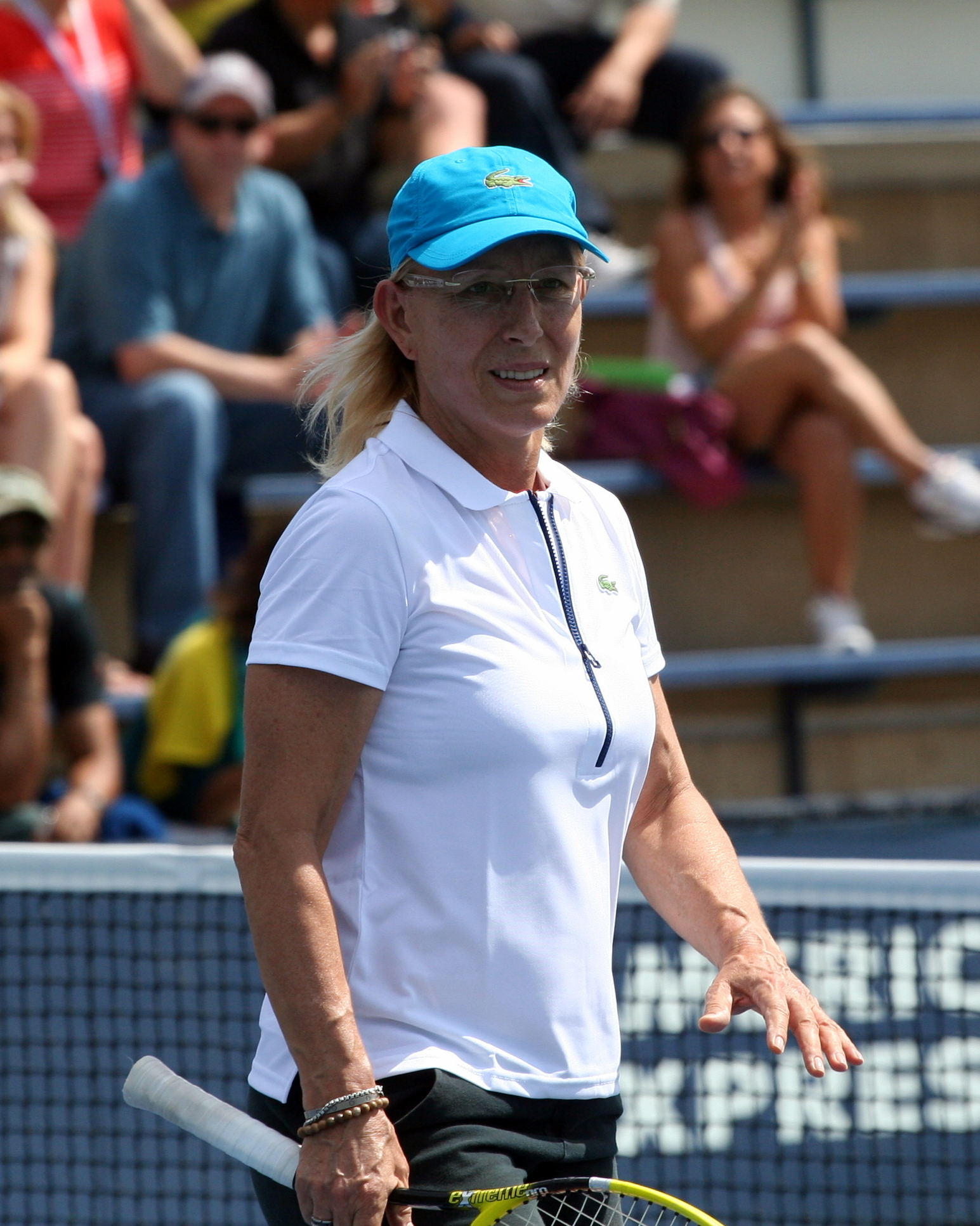 U.S. Open Champions Invitational Thursday, Sept. 5, 2013